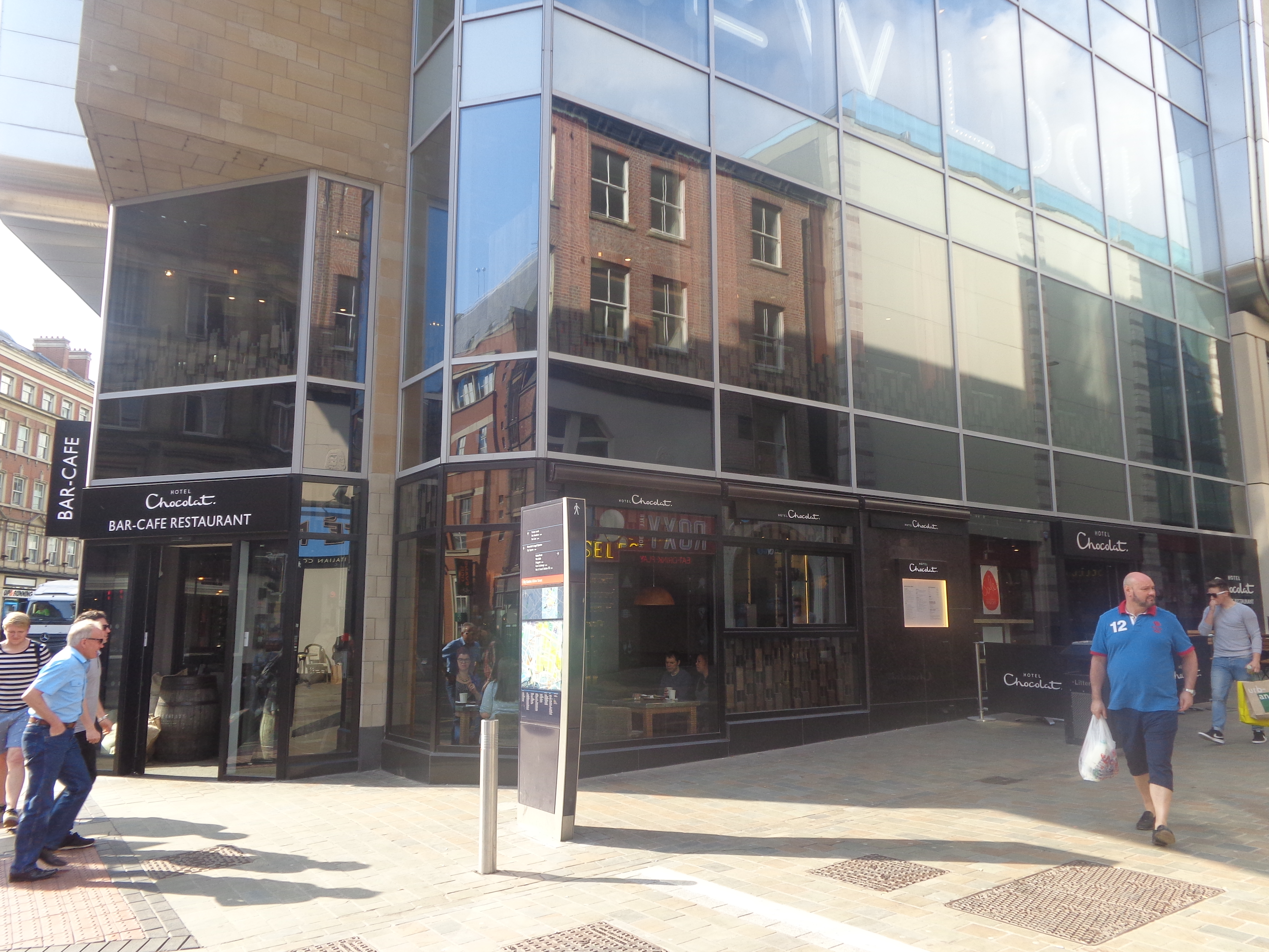 Hotel Chocolate (one of two in the city centre) on the junction of Boar Lane and Albion Street (part of the Trinity West development in Leeds, West Yorkshire. Taken on the afternoon of Easter Monday the 6th of April 2015.